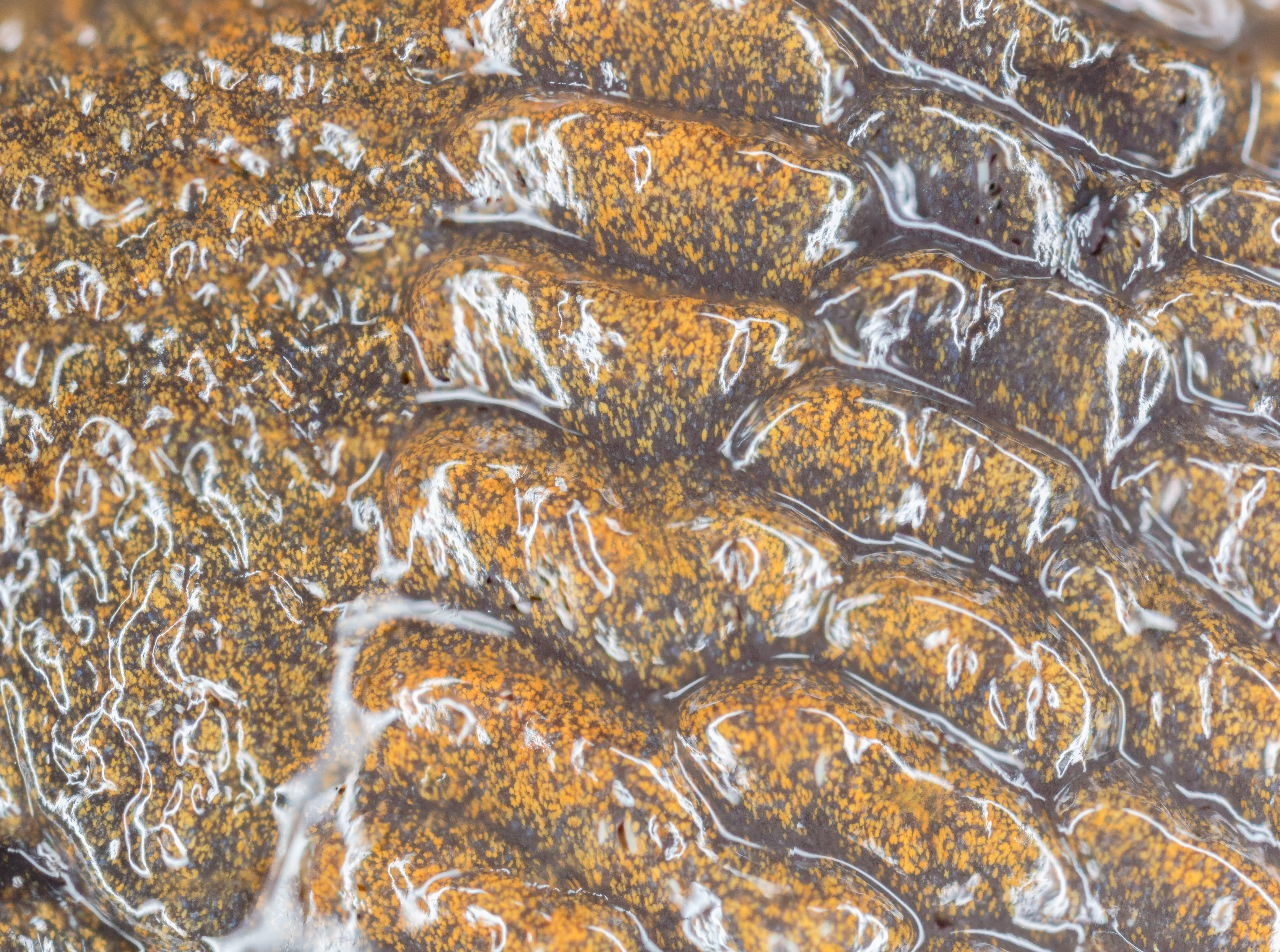 Black slug (Arion ater), Hartelholz, Munich, Germany